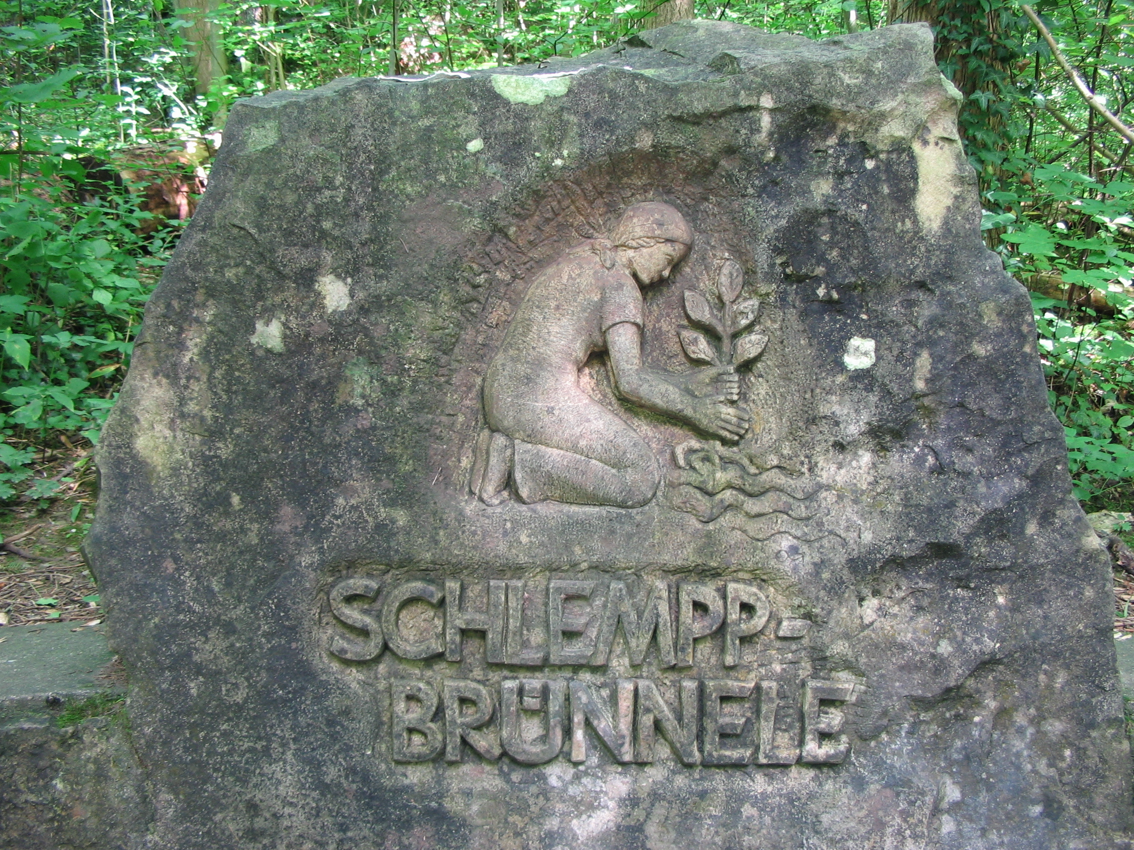 "Schlempp-Brünnele", a fountain between Tübingen and Bebenhausen, Germany.